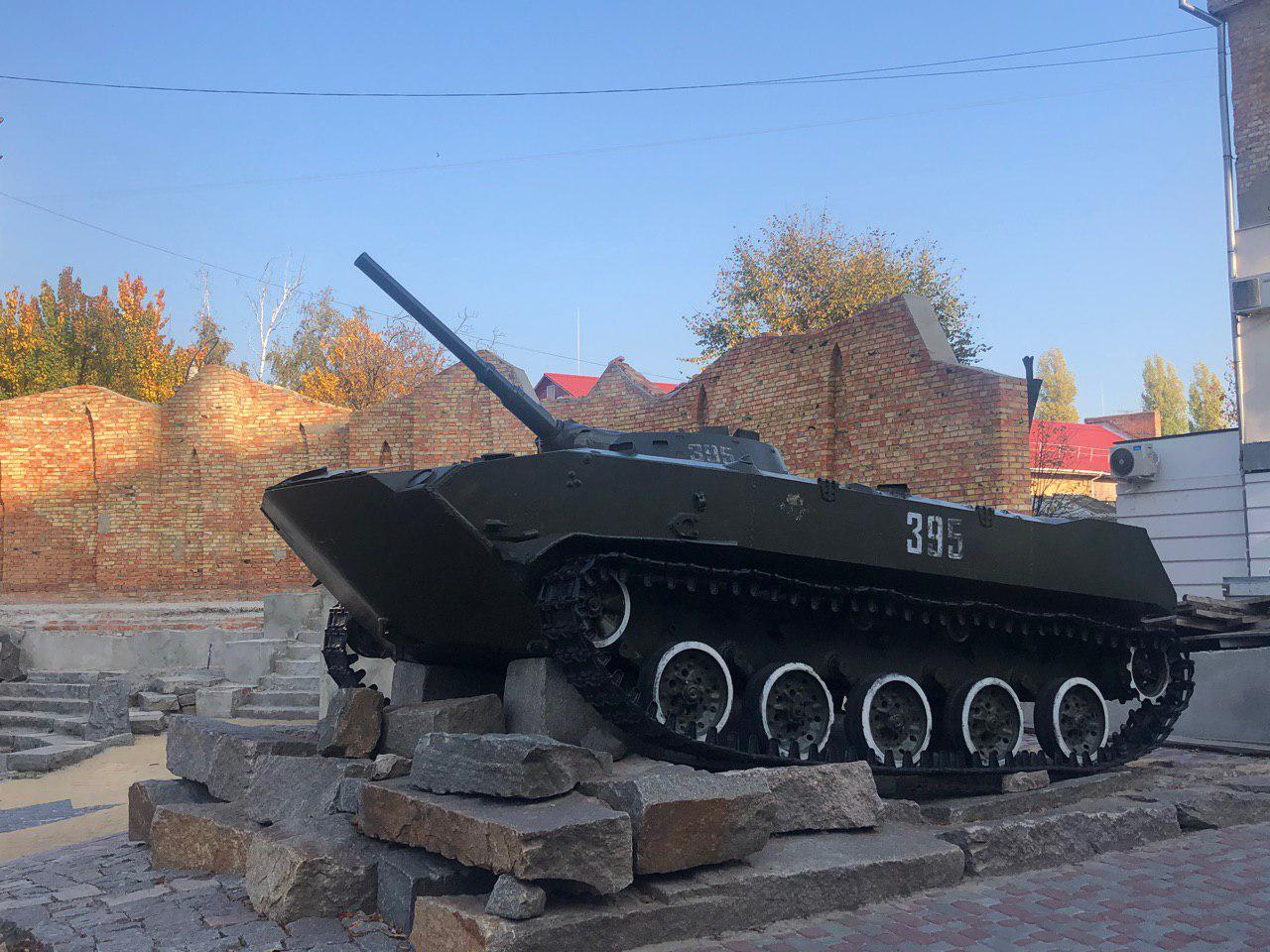 Cherkassy, BMD